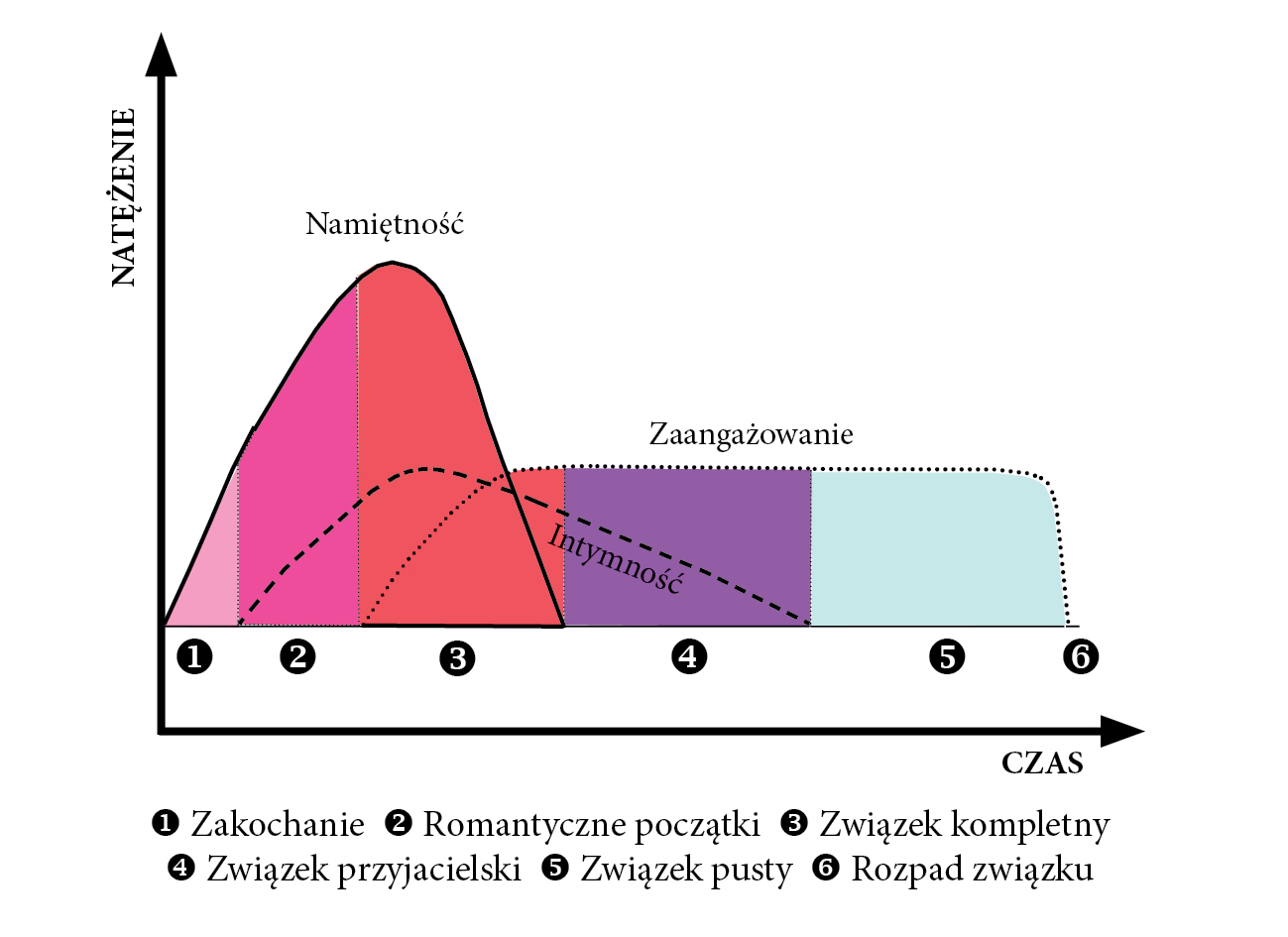 Dynamic variant of the Sternberg love model by B. Wojciszke, 2010 (Modified: J.A. Kowalski, 2011)